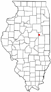 Category:Illinois city locator maps